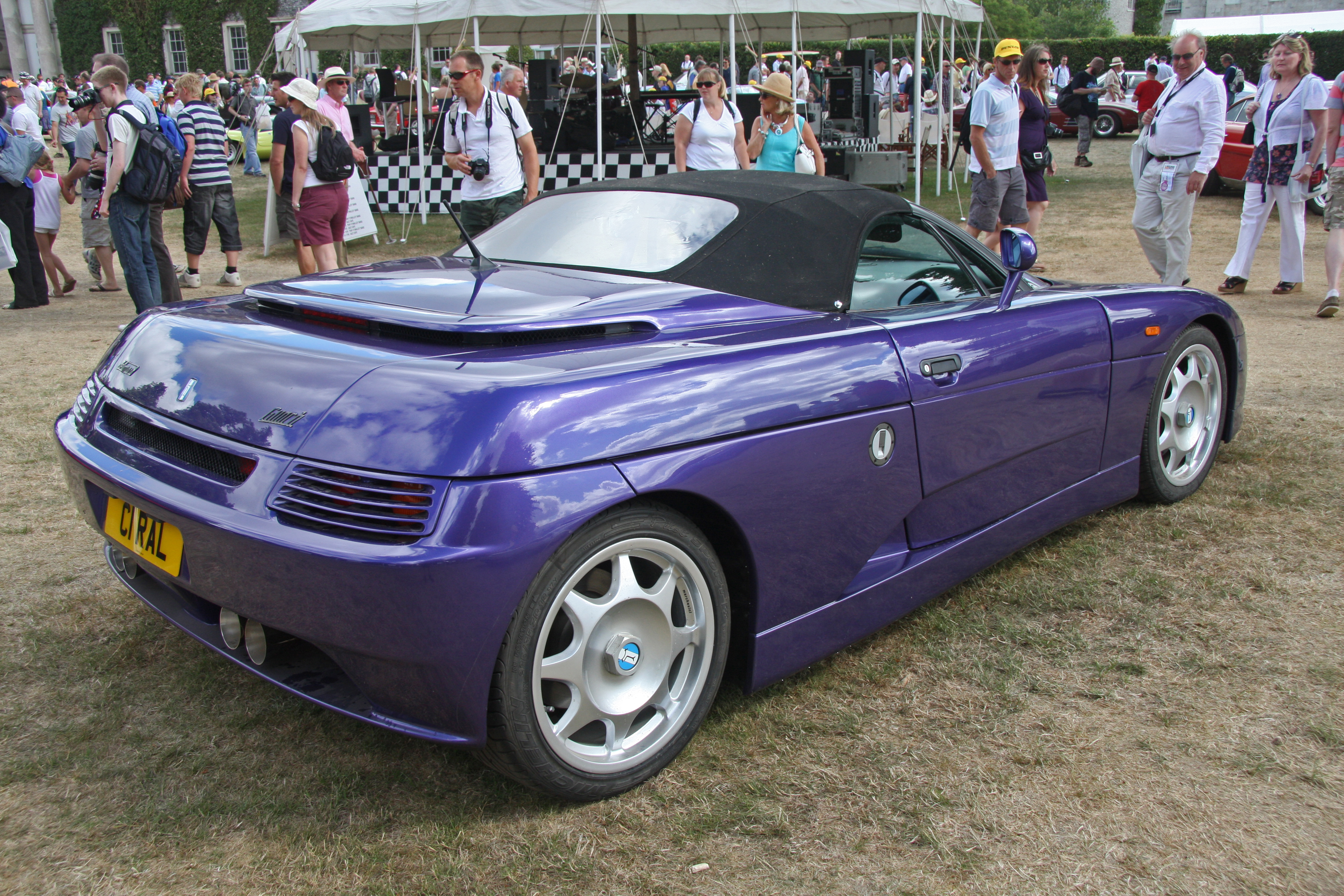 1998 De Tomaso Guarà Spider, BMW engined. Only five of these cars were built, as the later Ford engine did not leave enough room for the folding top.